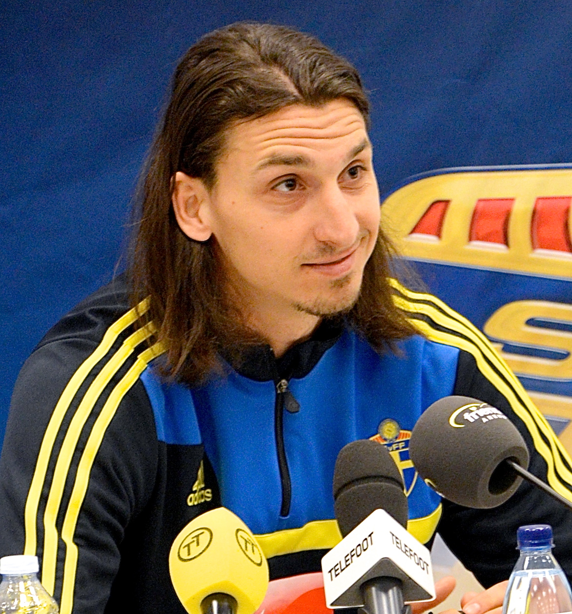 Zlatan Ibrahimović at a press conference March 21, 2013 before the qualifying match against Ireland.